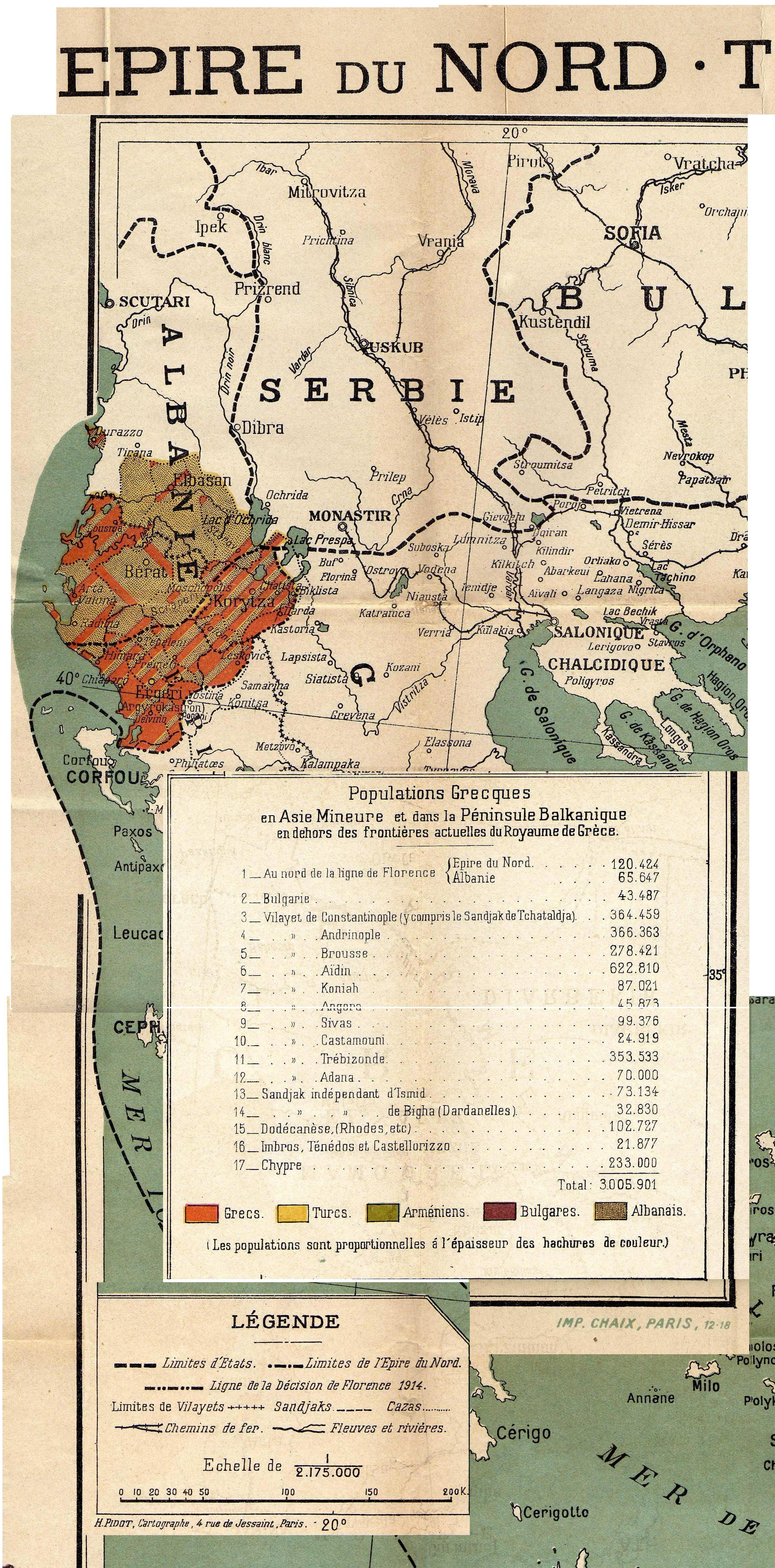 Part of a map titled "Epire du Nord, Thrace, Asie Mineure" (c. 1920), adapted to show the legends. Printed in Paris by H. Pidot.